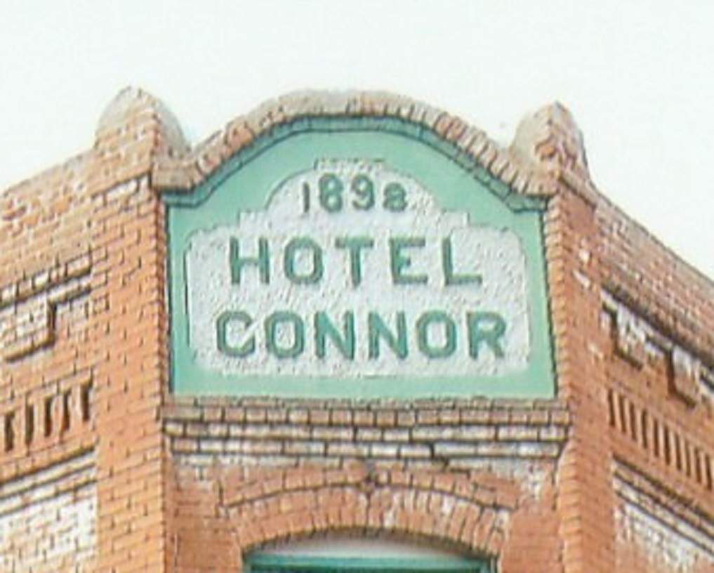 The Hotel Conner was built in 1898 and is located on the intersection of Main Street and Jerome Ave. In Jerime, Az.